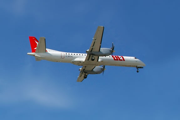 An OLT airliner comes in to land at London City Airport